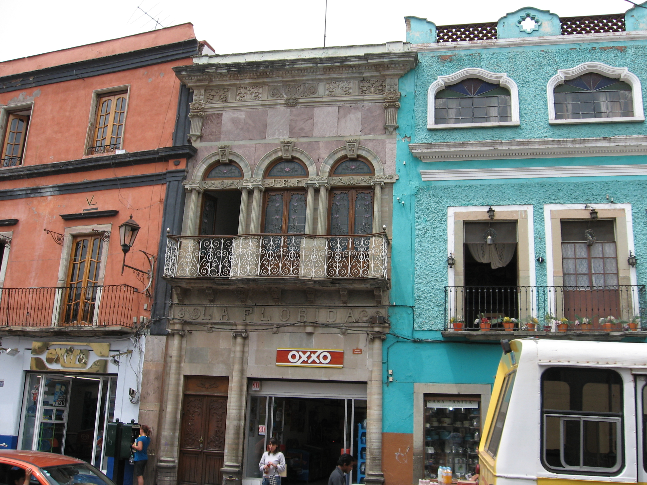 Guanajuato